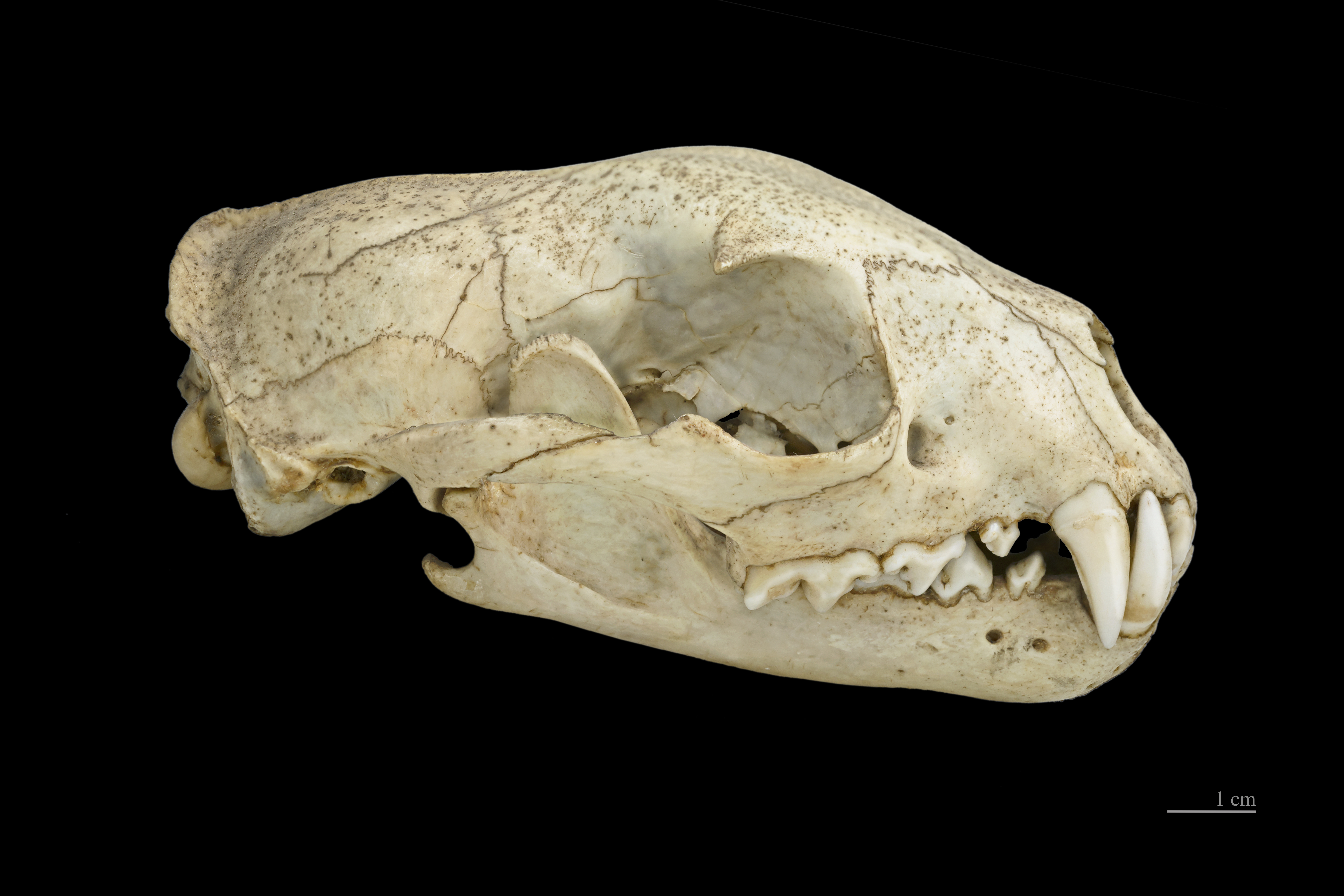 Fossa Skull profile.